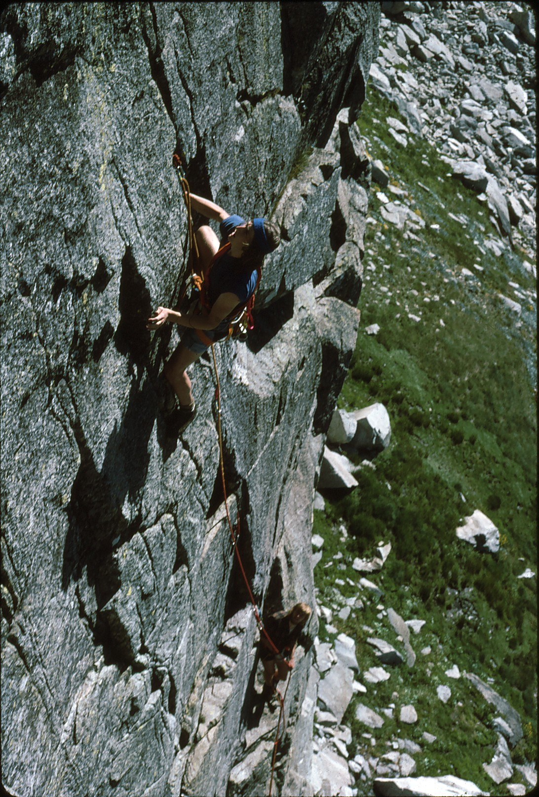 Peter Morris and John Eisman climb Mindbender at Blue Lake in the Snowy Mountains, Australia, 1976